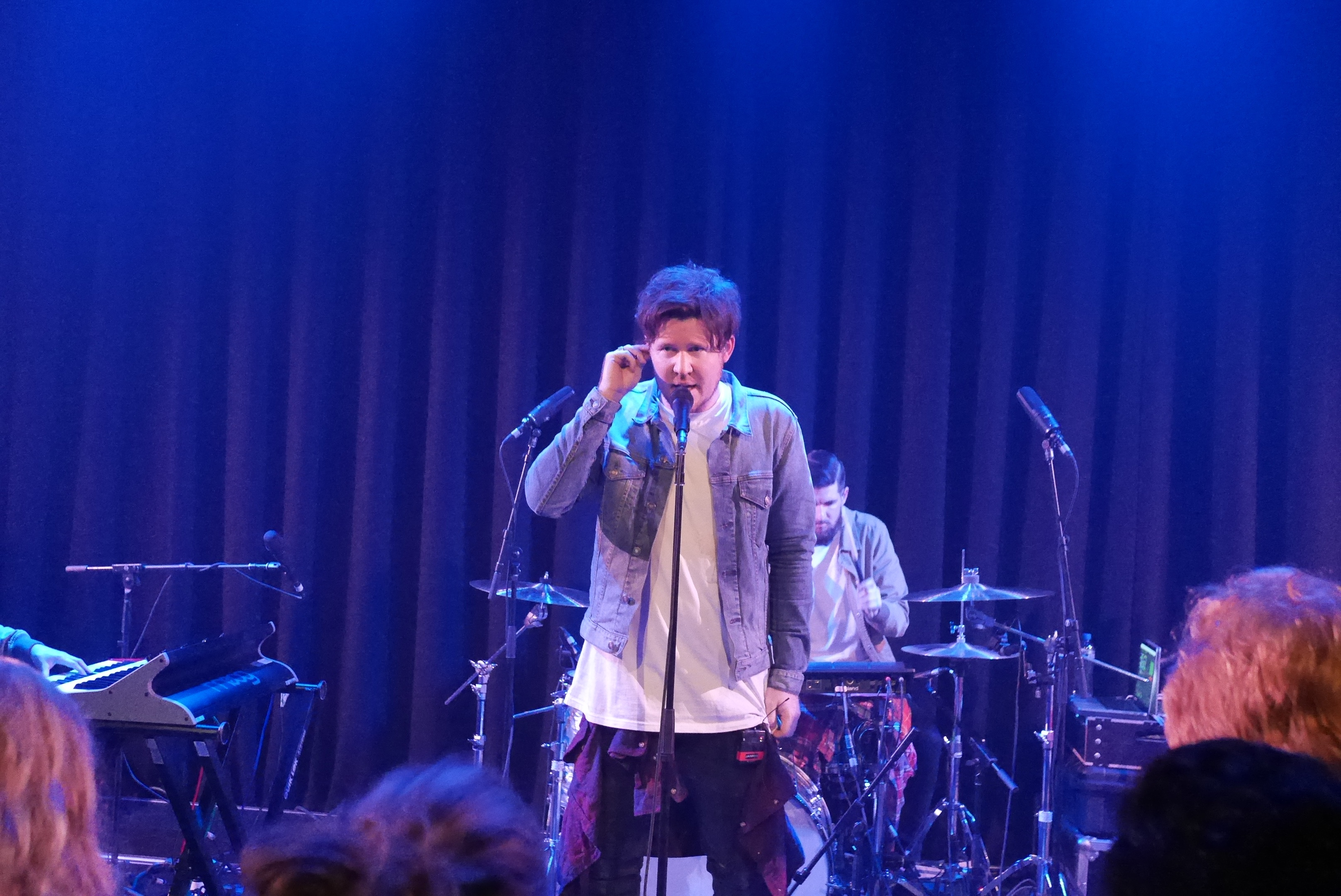 Jarryd James performing at Melkweg in 2015